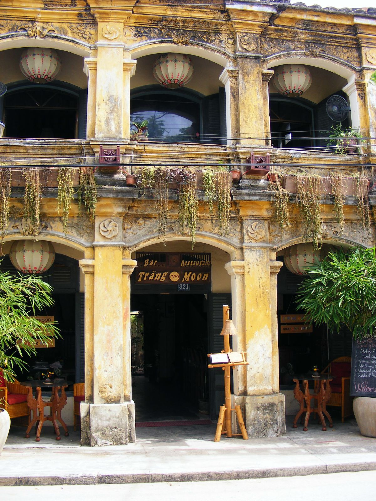 Hoi An building